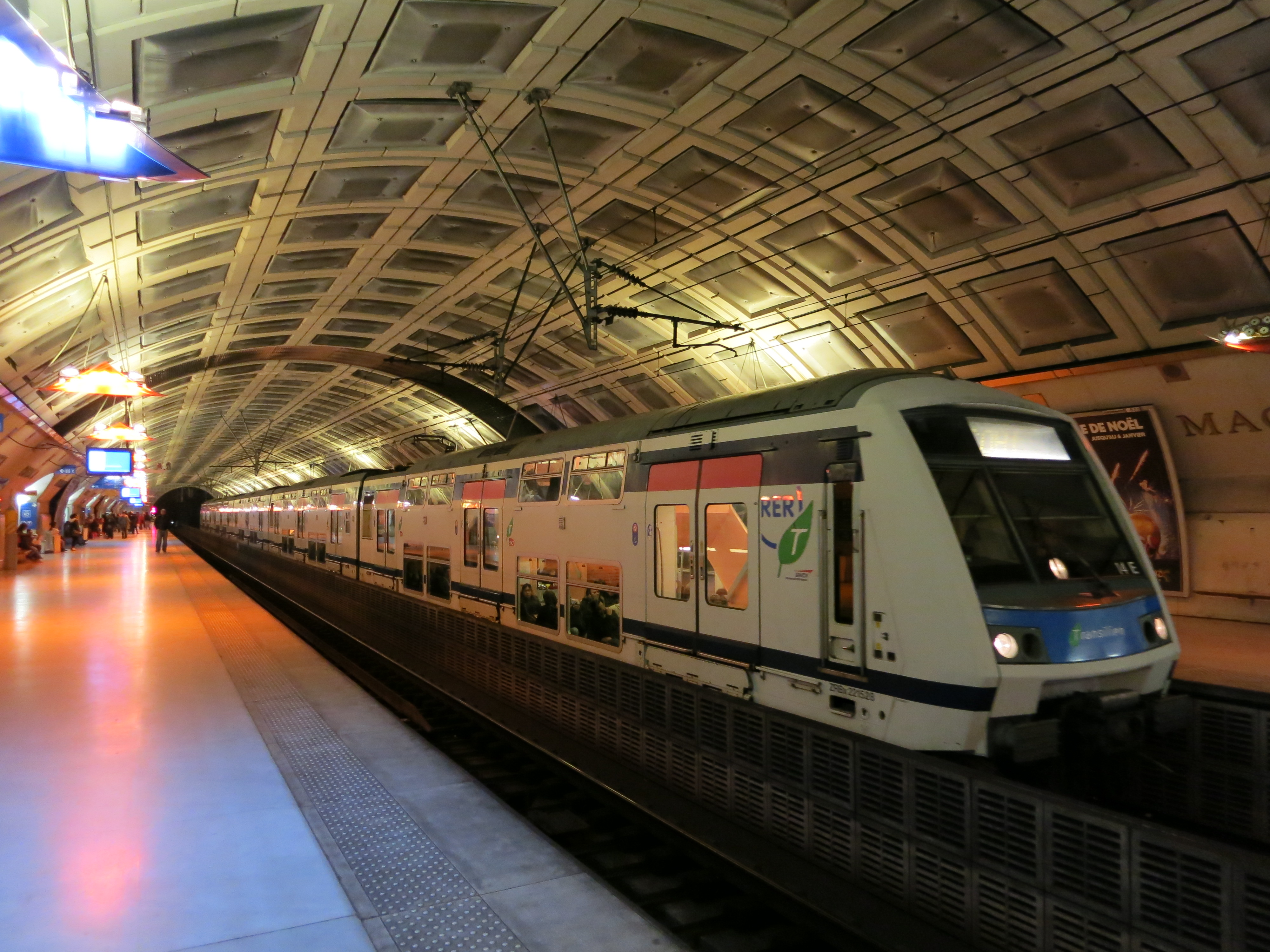 A train of RER E in Magenta station